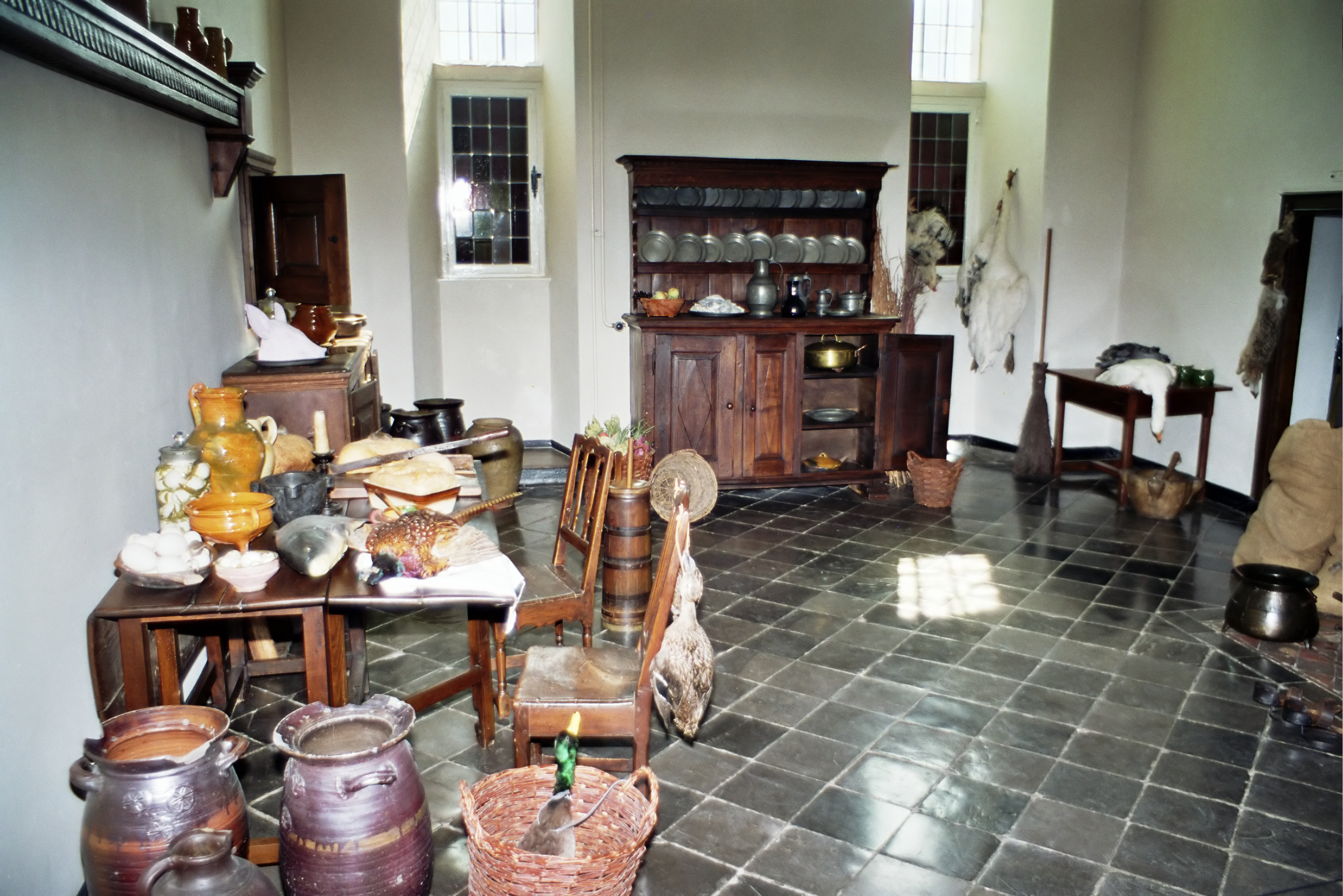 Hoensbroek Castle, kitchen